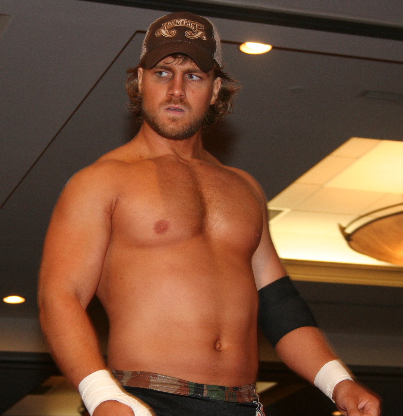 Adam Page prior to a match at the Mid-Atlantic FanFest in August 2014.